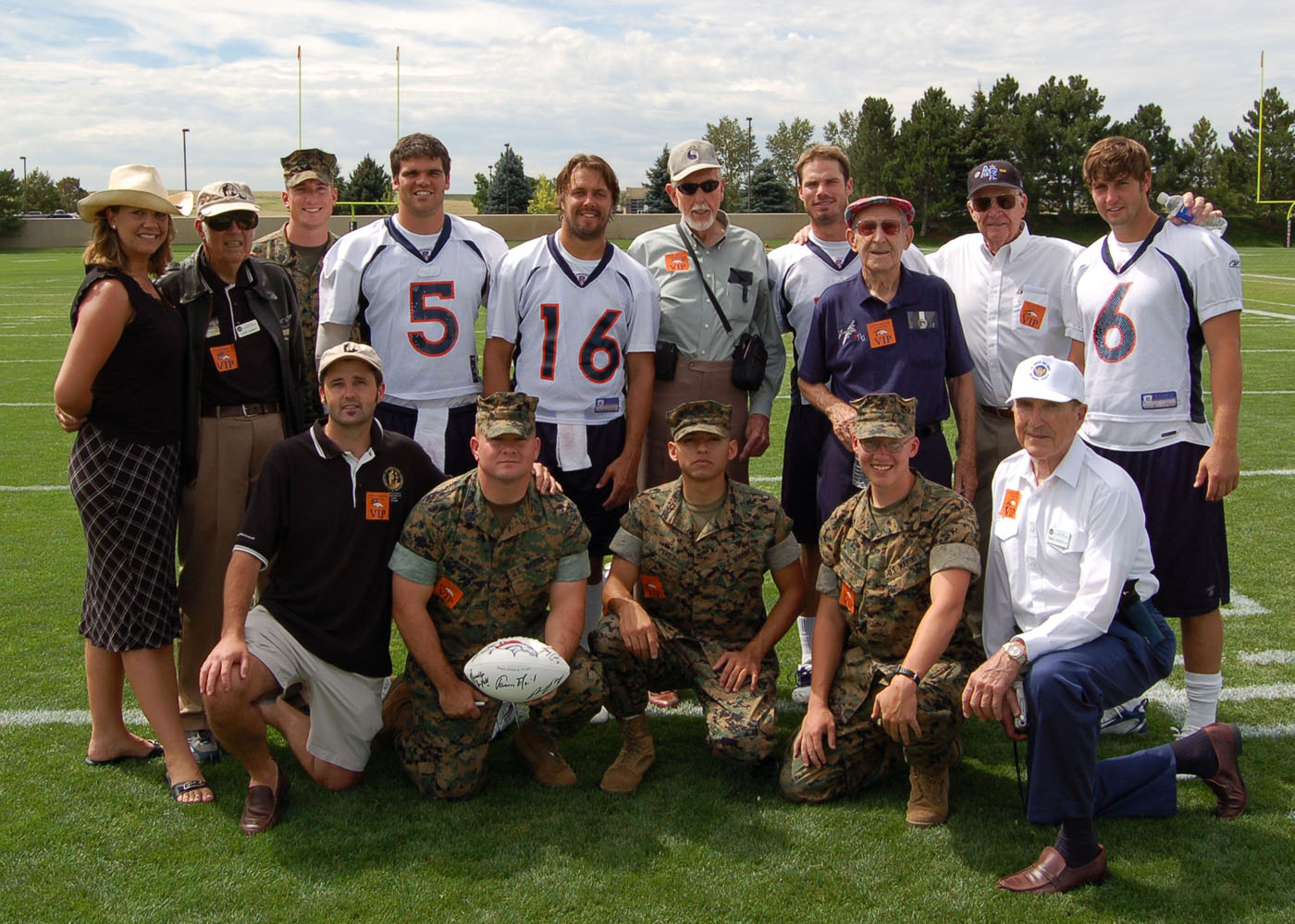 Marines from the Marine Cryptologic Support Battalion at Buckley Air Force Base in Colorado met with representatives from the Greatest Generations Foundation, World War II veterans and quarterbacks from the Denver Broncos Aug. 9 at a Denver Broncos training camp practice. Pictured are: back row, left to right are: Elizabeth Crony, Lucky McGinty, Sgt. Brian Geraghty, Preston Parsons, Jake Plummer, Ray Heap, Bradlee Van Pelt, Leonard McKinney, E.E. Mischler, and Jay Cutler. Kneeling, left to right: Timothy Davis, Staff Sgt. Richard Molnar, Sgt. Manuel Perez, Lance Cpl. Christopher Pickens, and Rigney Sackley. The Marines were invited to the practice by the Greatest Generations Foundation to meet with World War II Veterans. The Greatest Generations Foundation is a non-profit educational organization that raises money to fully fund trips for veterans to revisit the sites of their former battlefields.